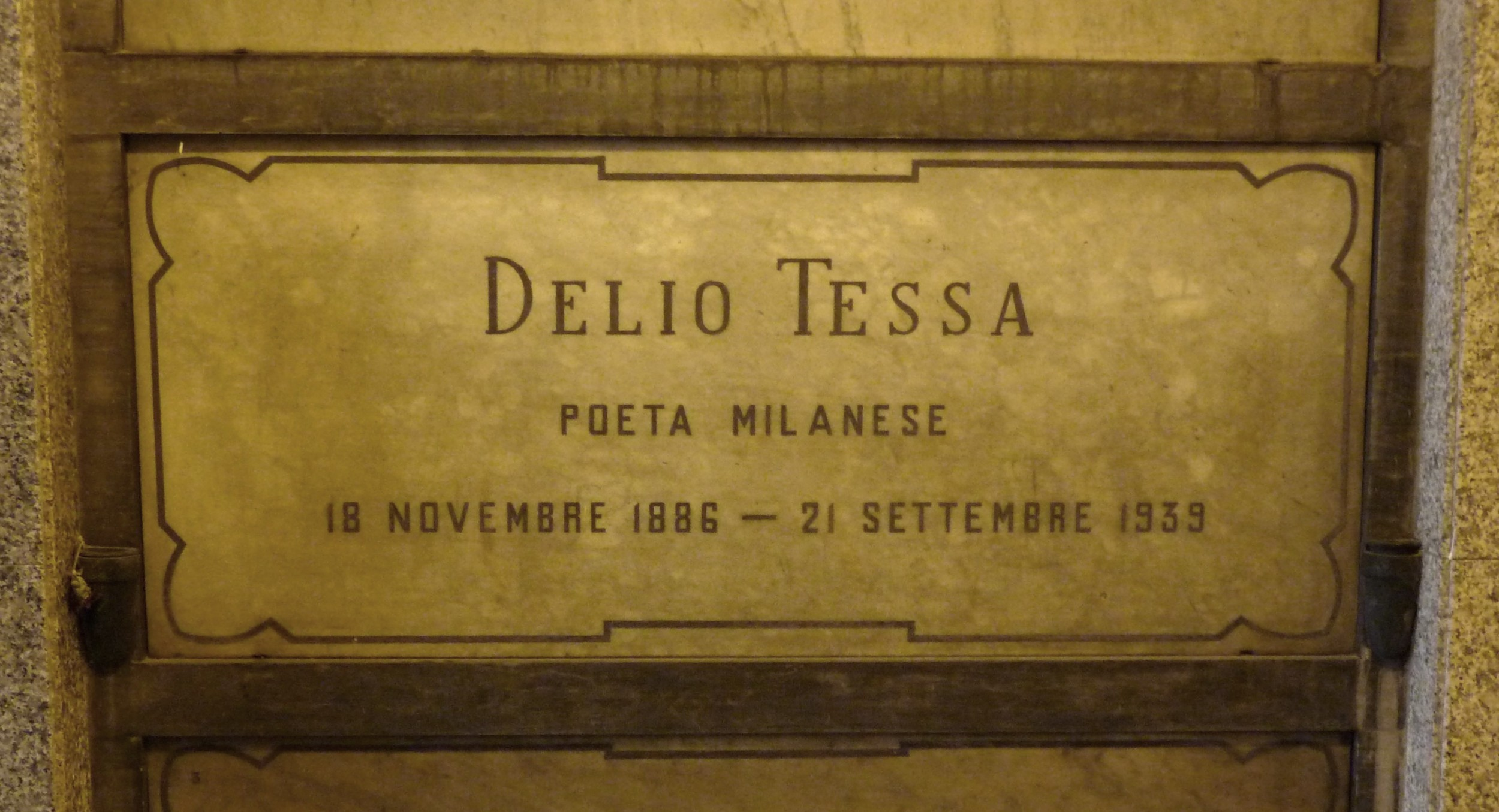 The grave of Italian poet Delio Tessa at the Monumental Cemetery of Milan, Italy.